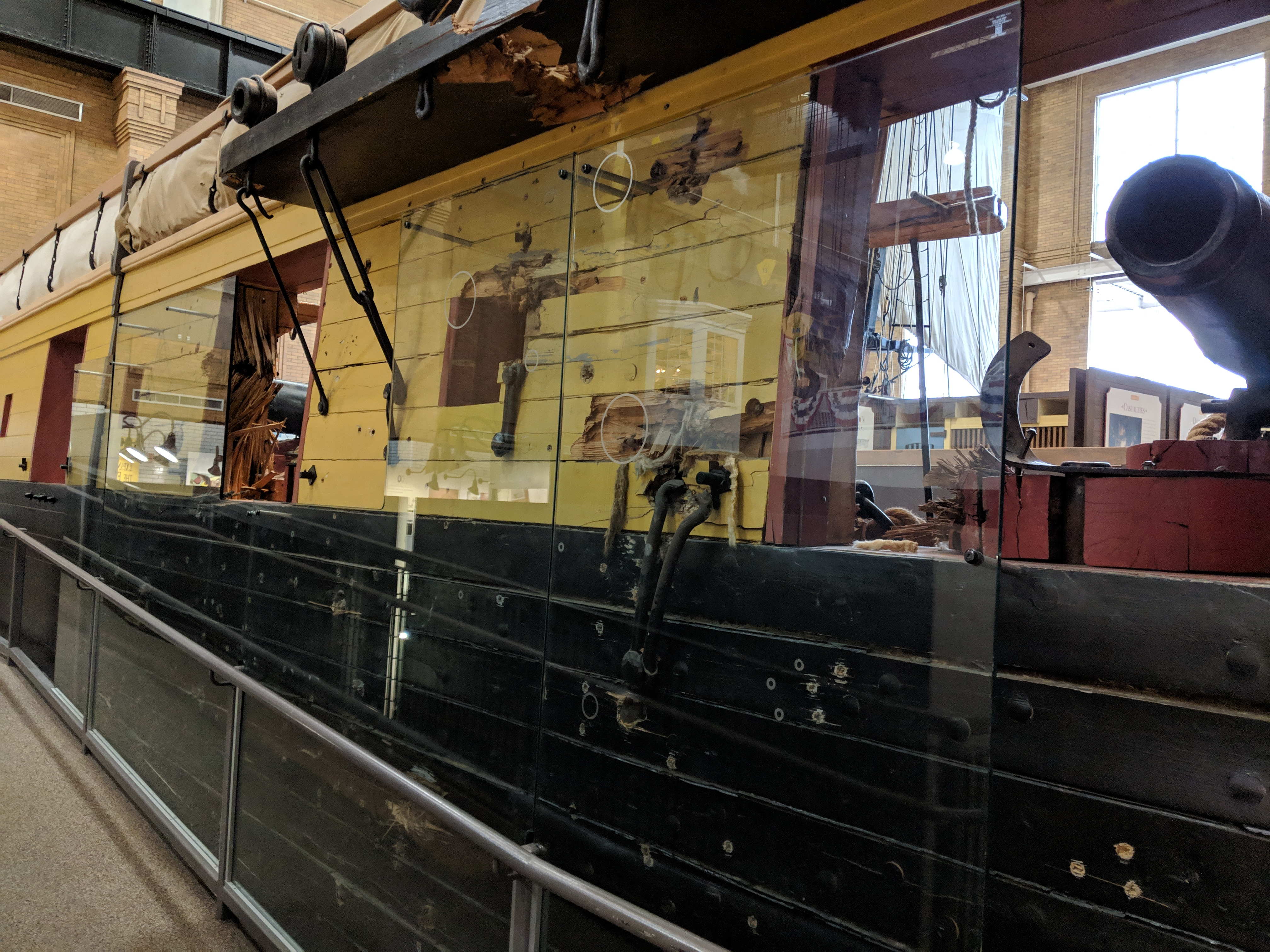 Replica of the US Brig Lawrence which illustrates the effect of 19th century artillery on a wooden warship.